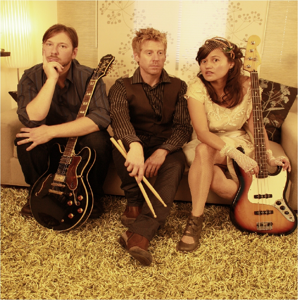 Sentinel (band) Oakland California